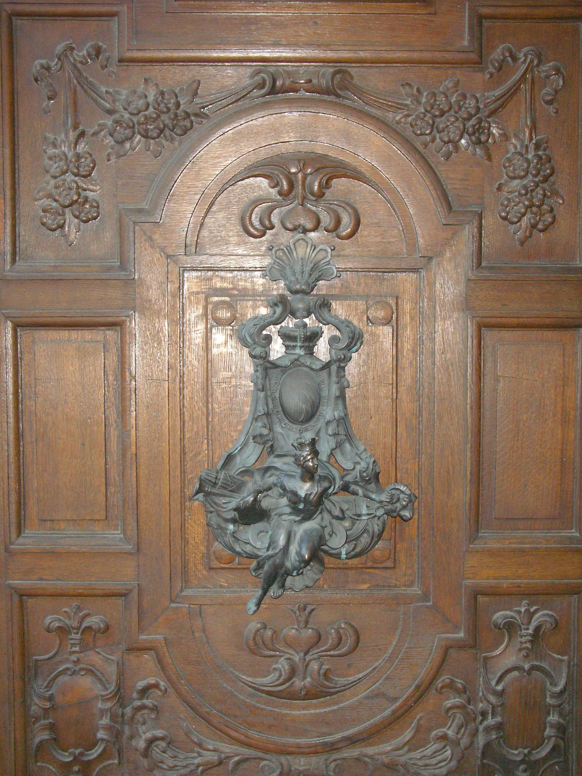 Detail of the main door of the Palais Kinsky in Vienna. Built in the baroque era for the noble Kinsky von Wichnitz und Tettau family.